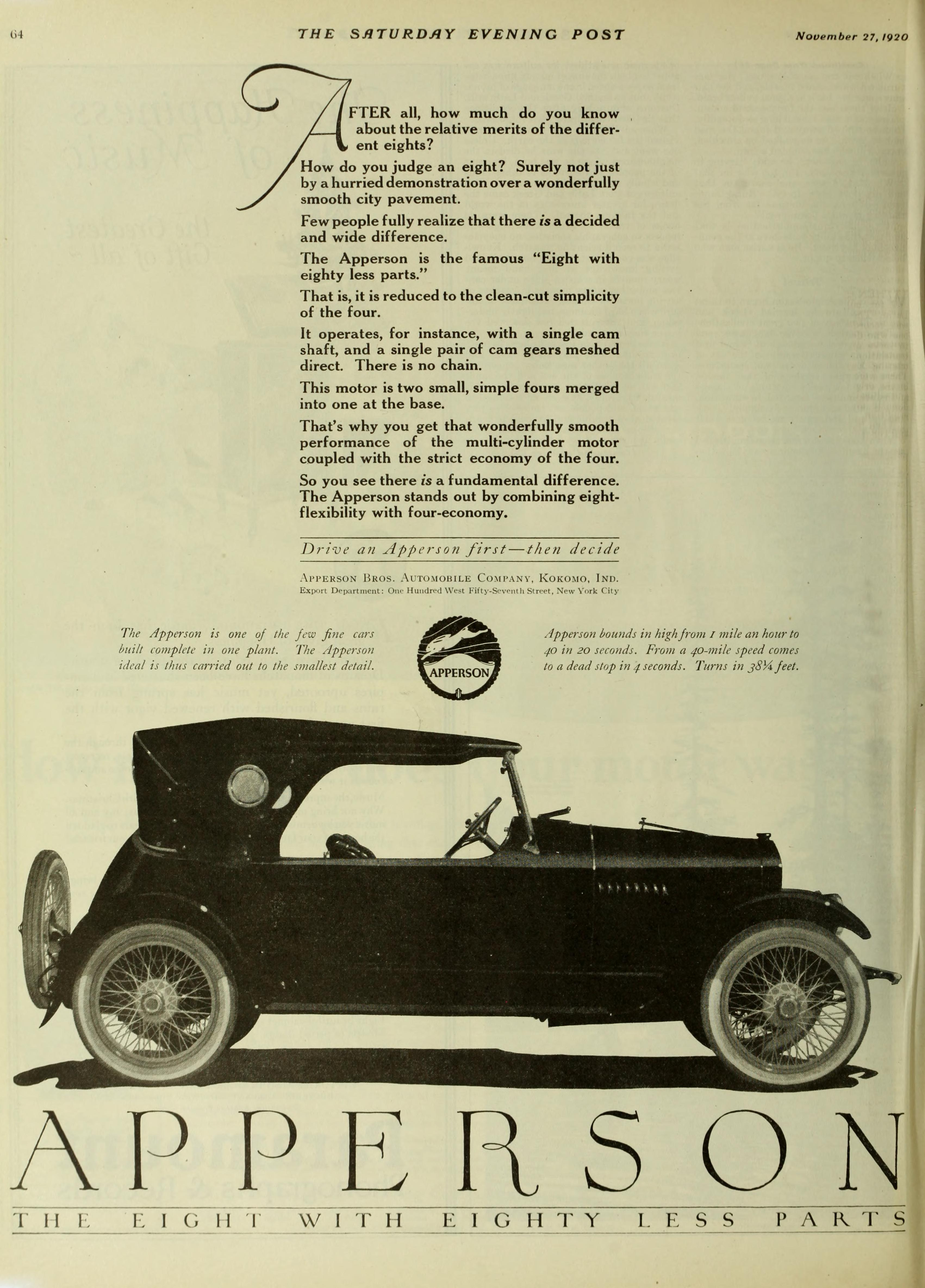 Drive an Apperson first - then deside, 1920 Title: The Saturday evening post Year: 1839 (1830s) Authors: Subjects: Publisher: Philadelphia : G. Graham Text Appearing Before Image: ght? Surely not justby a hurried demonstration over a wonderfullysmooth city pavement. Few people fully realize that there is a decidedand wide difference. The Apperson is the famous Eight witheighty less parts. That is, it is reduced to the clean-cut simplicityof the four. It operates, for instance, with a single camshaft, and a single pair of cam gears mesheddirect. There is no chain. This motor is two small, simple fours mergedinto one at the base. Thats why you get that wonderfully smoothperformance of the multi-cylinder motorcoupled with the strict economy of the four. So you see there is a fundamental difference.The Apperson stands out by combining eight-flexibility with four-economy. Drive an Apperson first — then decideAiMiiKsoN Bros. Automobile Company, Kokomo, Ind. Export Department: One Hundred West Fifty-Seventh Street, New York City Apperson bounds in high Jrom i mile an hour to40 in 20 seconds. Front a 40-mile speed comesto a dead stop in 4 seconds. Turns in j8lA feet. Text Appearing After Image: APP ER5QN THE EIGHT WITH EIGHTY LESS PARTS The Apperson is one of the few fine carsbuilt complete in one plant. The Appersonideal is thus carried out to the smallest detail.